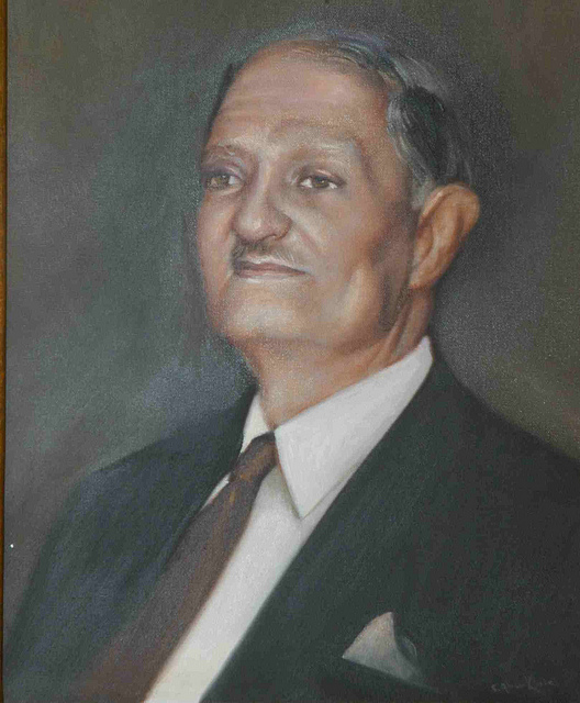 A personal photo of Emir Khaled Chehab